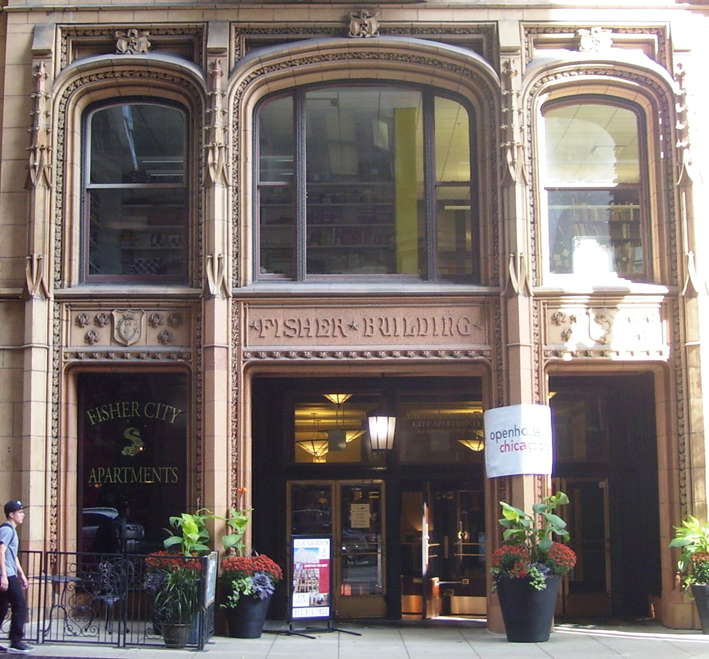 The entrance to the Fisher Building at 343 South Dearborn Avenue in the Loop neighborhood of Chicago, Illinois.